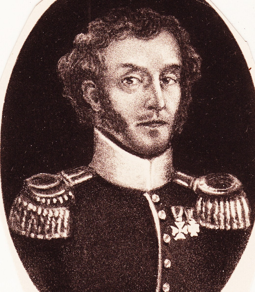 J.D. Saueressig